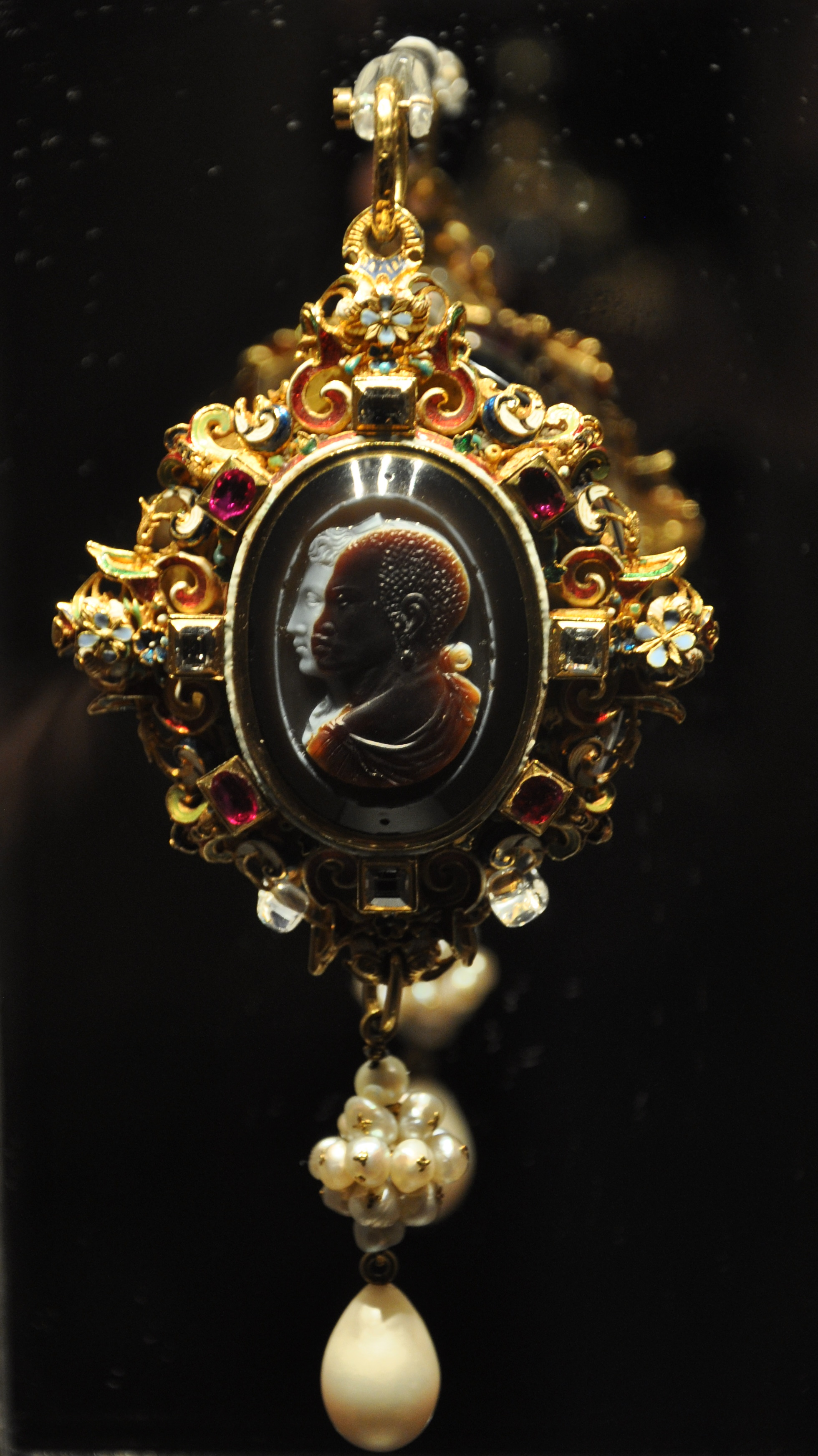 The Drake Jewel given to Sir Francis Drake by Elizabeth I probably in the year 1586. Victoria and Albert Museum.